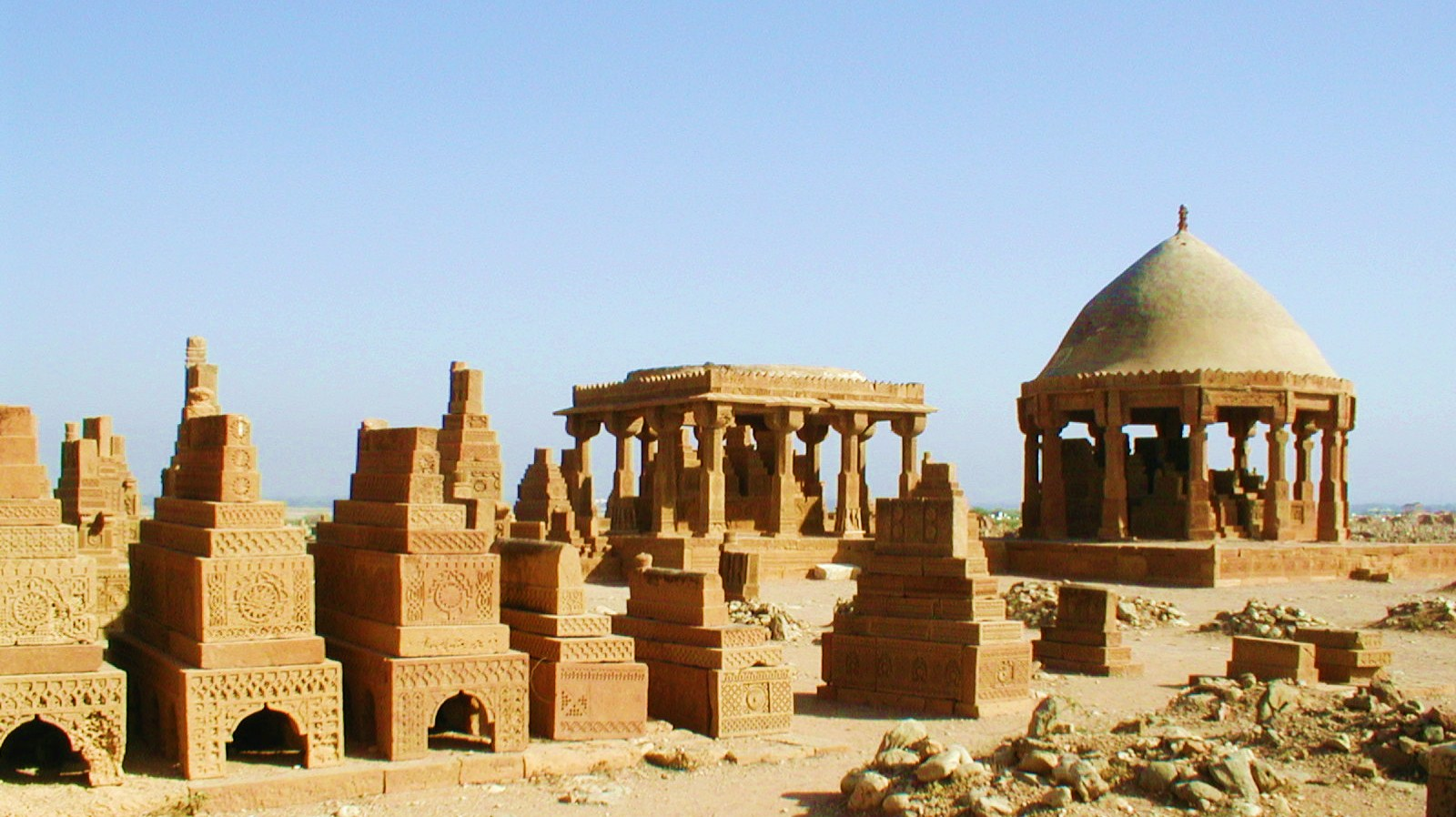 Tombs and graves at Chaukundi, the Chaukhandi tombs. situated 29 km east of Karachi on N-5 National Highway near Landhi Town. Picture taken in October 2005.